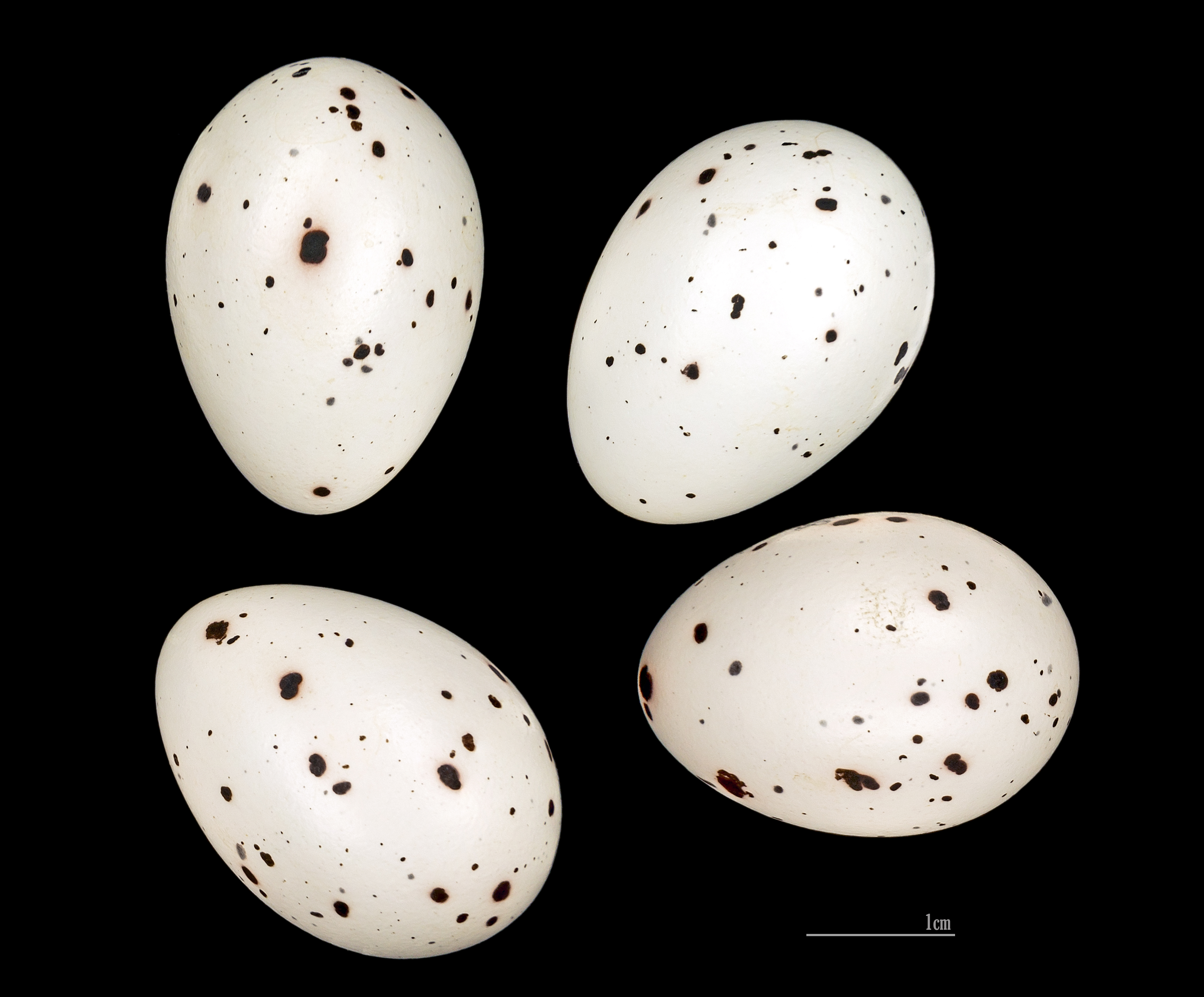 Egg of Golden Oriole. Collection of René de Naurois/Jacques Perrin de Brichambaut